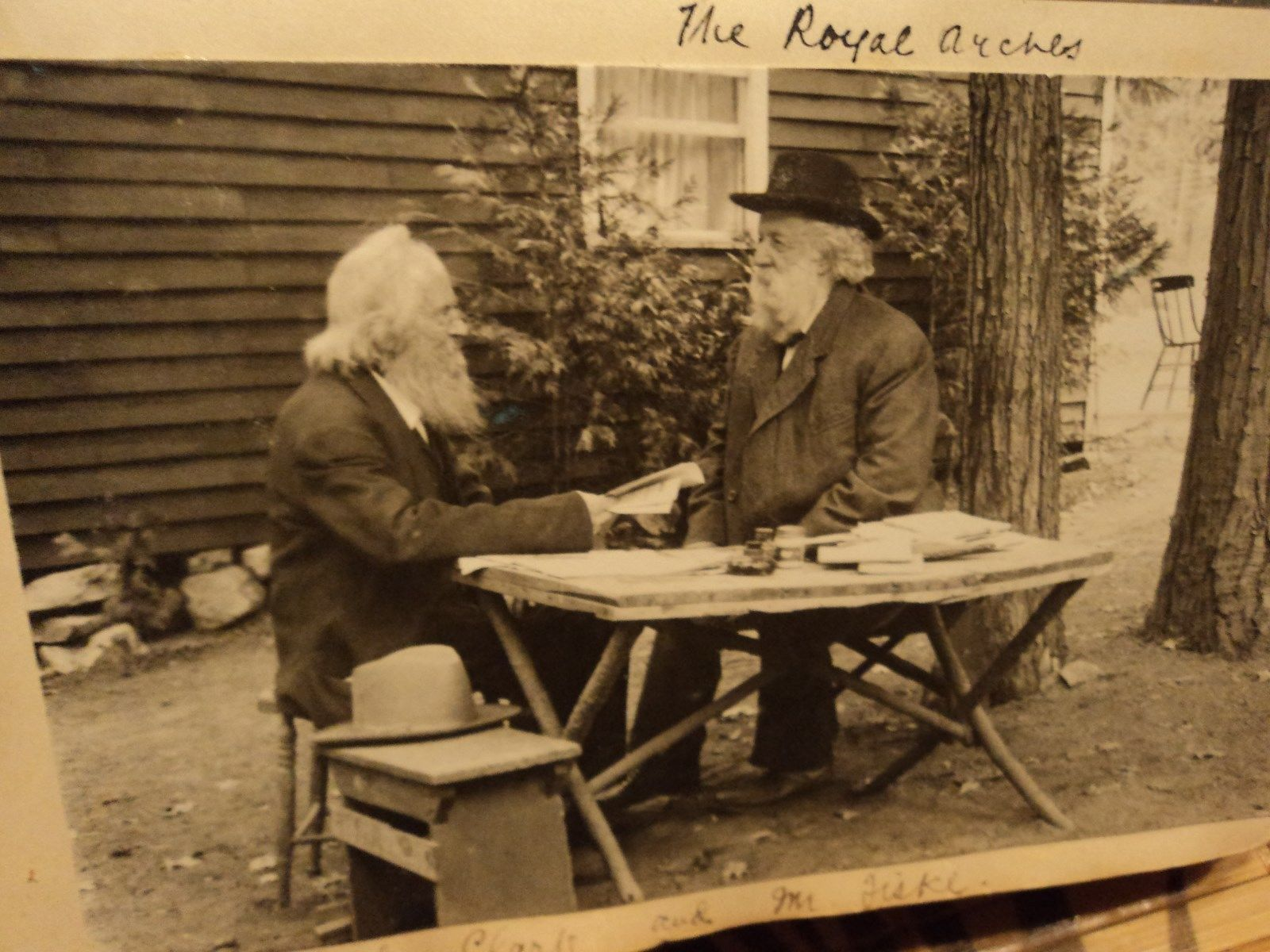 Photo taken circa 1908.